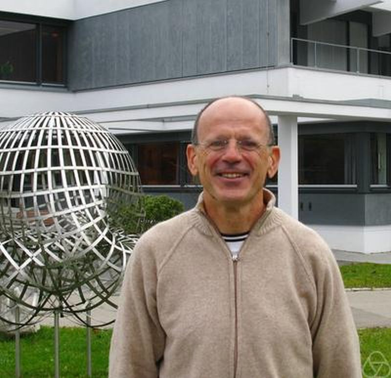 Michele Conforti, Oberwolfach 2011